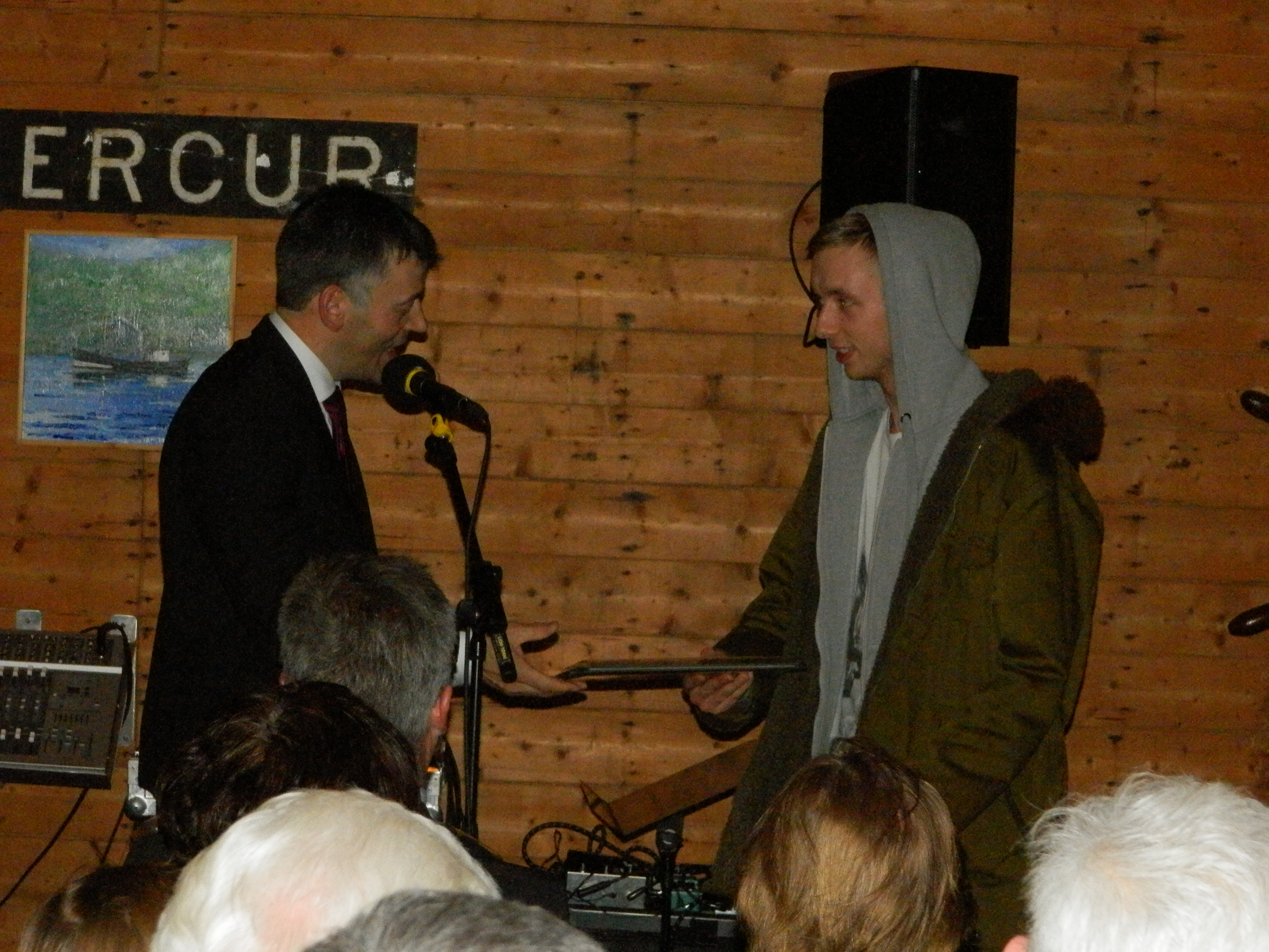 Trygvi Danielsen is a Faroese writer and musician. He was awarded with Faroese Award to Young Artist 2013 from the Faroese government. Bjørn Kalsø, cultural minister handed the award on 15 January 2014 in Stóra Pakkhús in Vágur.